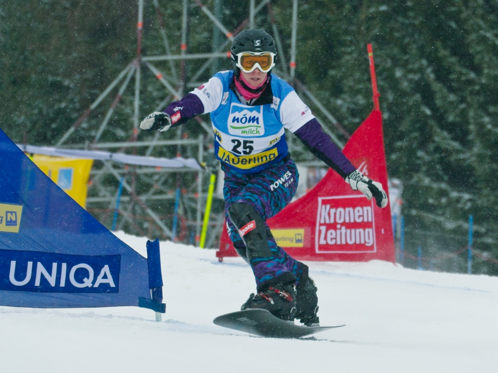 Austrian snowboarder Heidi Neururer in the qualification round of the World Cup Parallel Slalom at the Jauerling in Austria on 13 January 2012.